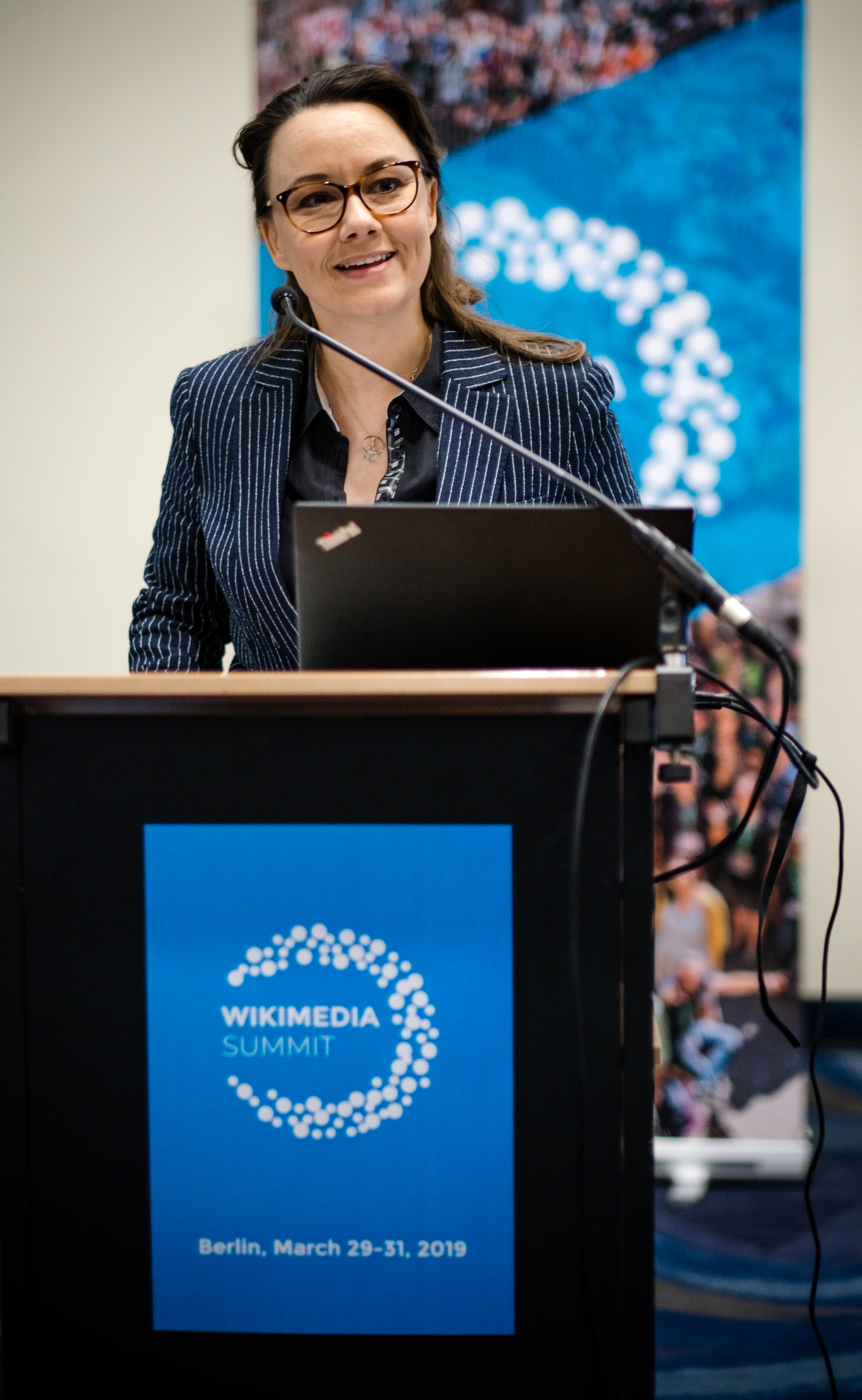 Wikimedia Summit 2019